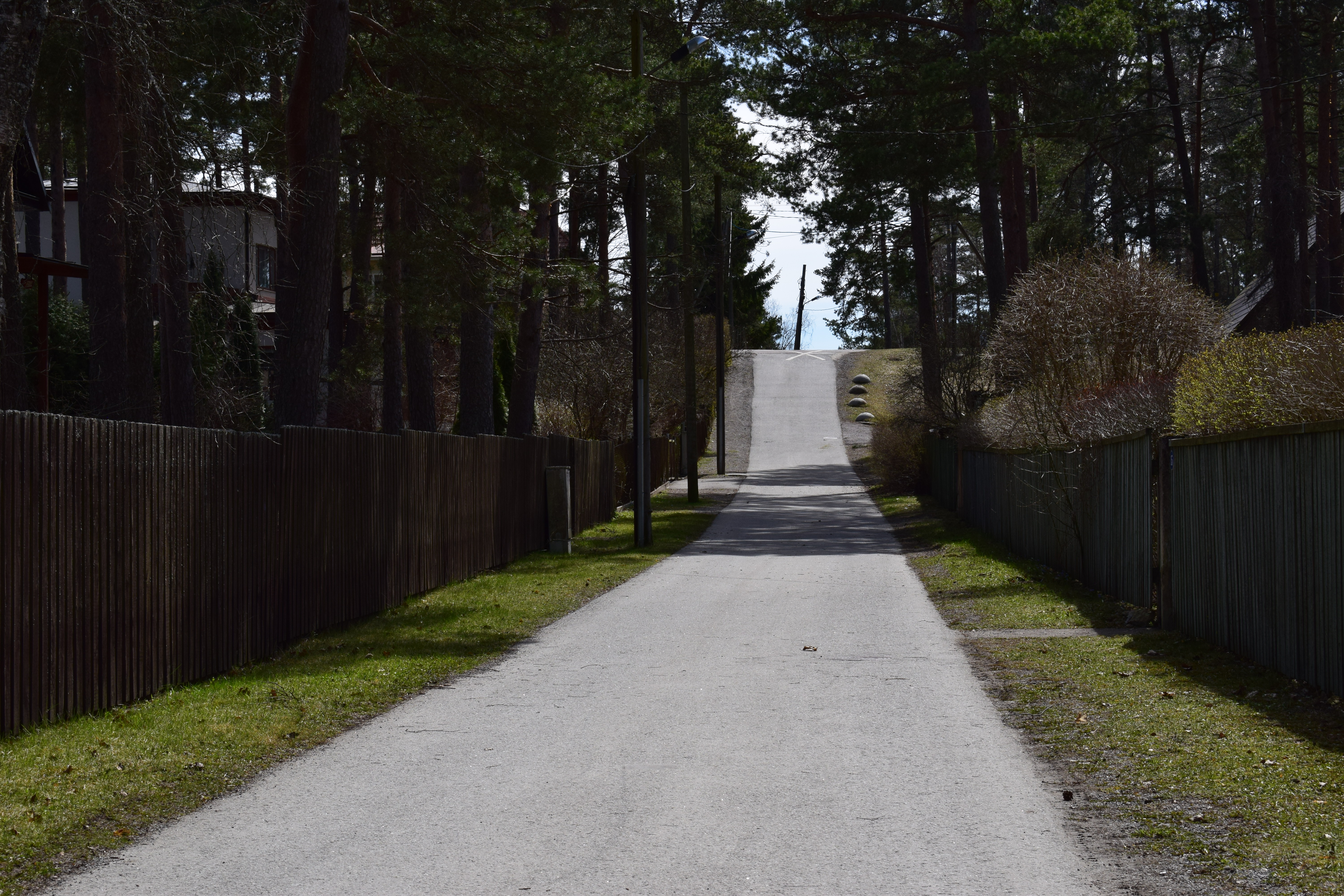 Pidu Street